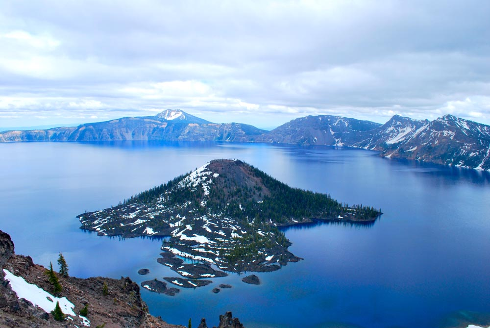 Crater Lake National Park Wizard Island